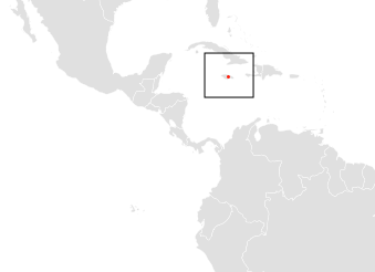 Distribution of Phyllonycteris aphylla